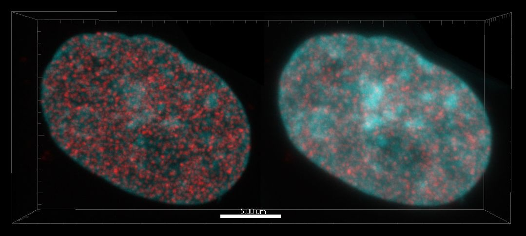 3D-rendering of a fixed HeLa-cell nucleus transgenic for a Histone H2B-GFP fusion protein (displayed in Cyan) and with a scratch replication label highlighting sites of DNA replication (red). Left: recording in confocal mode (pinhole = 1 Airy unit). Right: recording in non-confocal mode (completely open pinhole). View from the top.